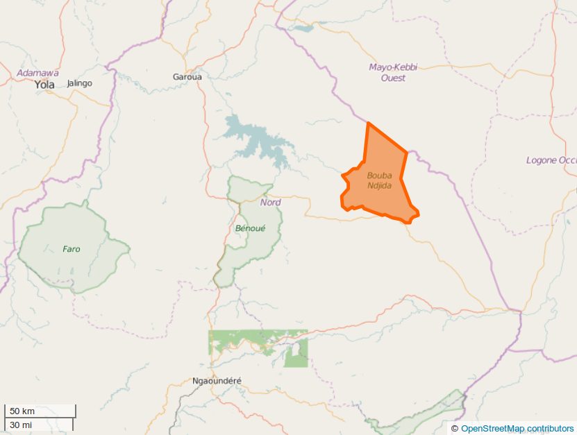 Bouba Njida National Park, Cameroon (OSM). This map may be incomplete, and may contain errors. Don't rely solely on it for navigation.